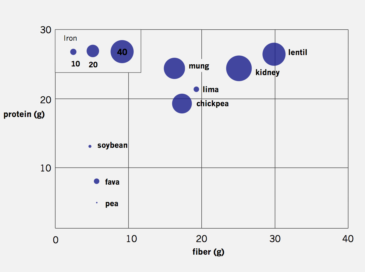 The protein, fiber and iron content per bean.